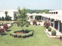 Federal Correctional Institute Butner Medium